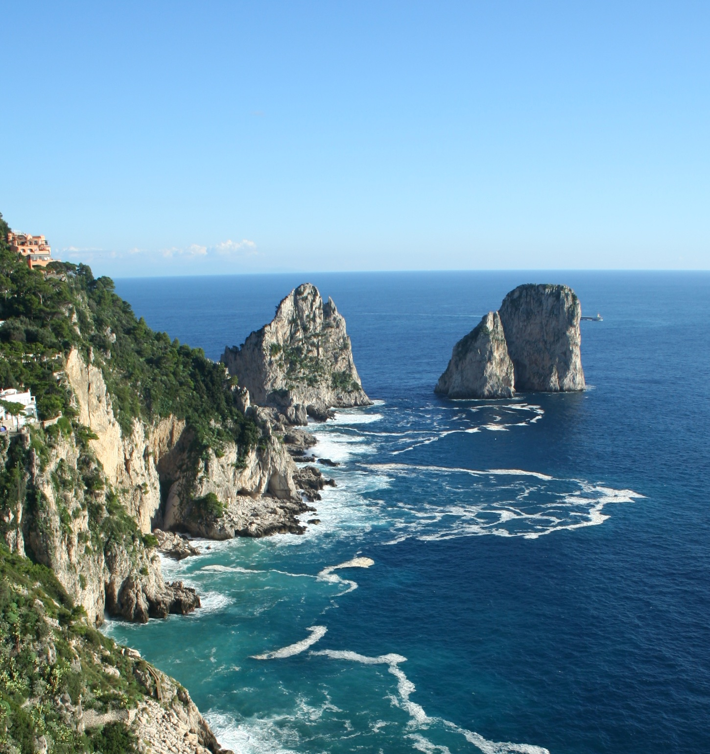 Photo specifications: Dimensions: 1664 x 2496 px Resolution: 72 dpi Equipment : Canon EOS 350D digital Shutter speed: Lens Aperture: Focal length : 18 mm (35mm equivalent = 30mm) ISO speed : ISO-100 Exp Program : Manual Exp Compensation: -/+ 0 step Date shot : November 24, 2006 1:10PM Venue : Rome